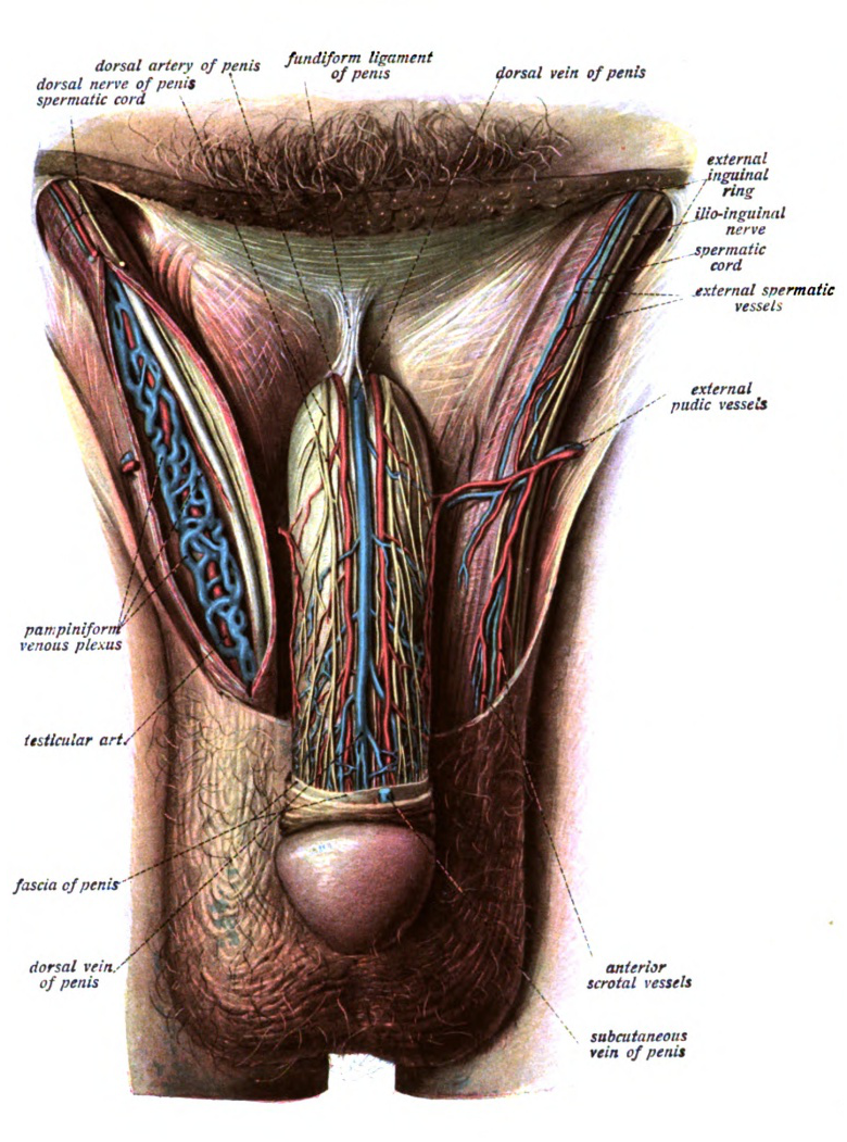 An anatomical illustration from Sobotta's Human Anatomy 1908